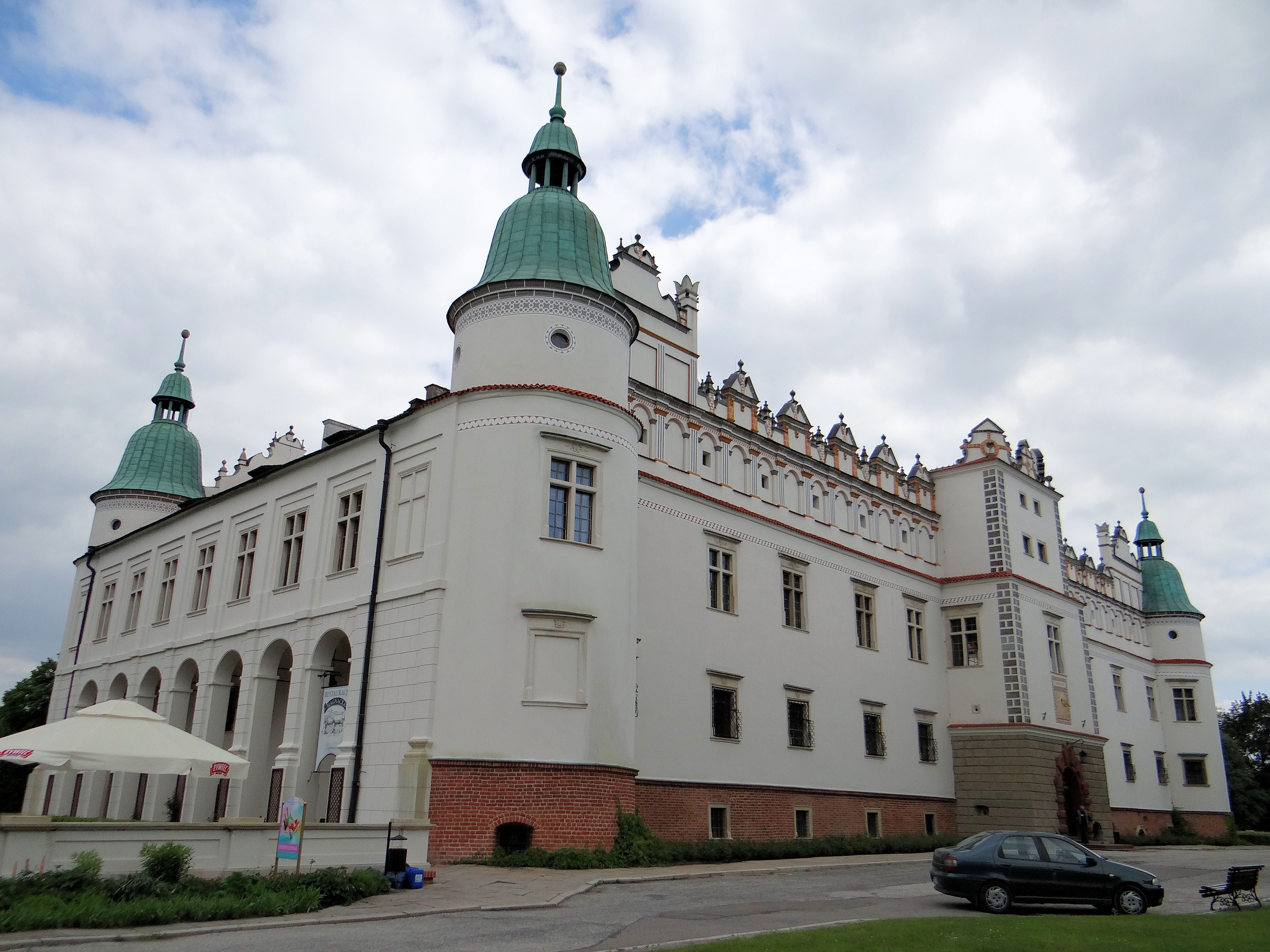 Baranów Sandomierski Castle